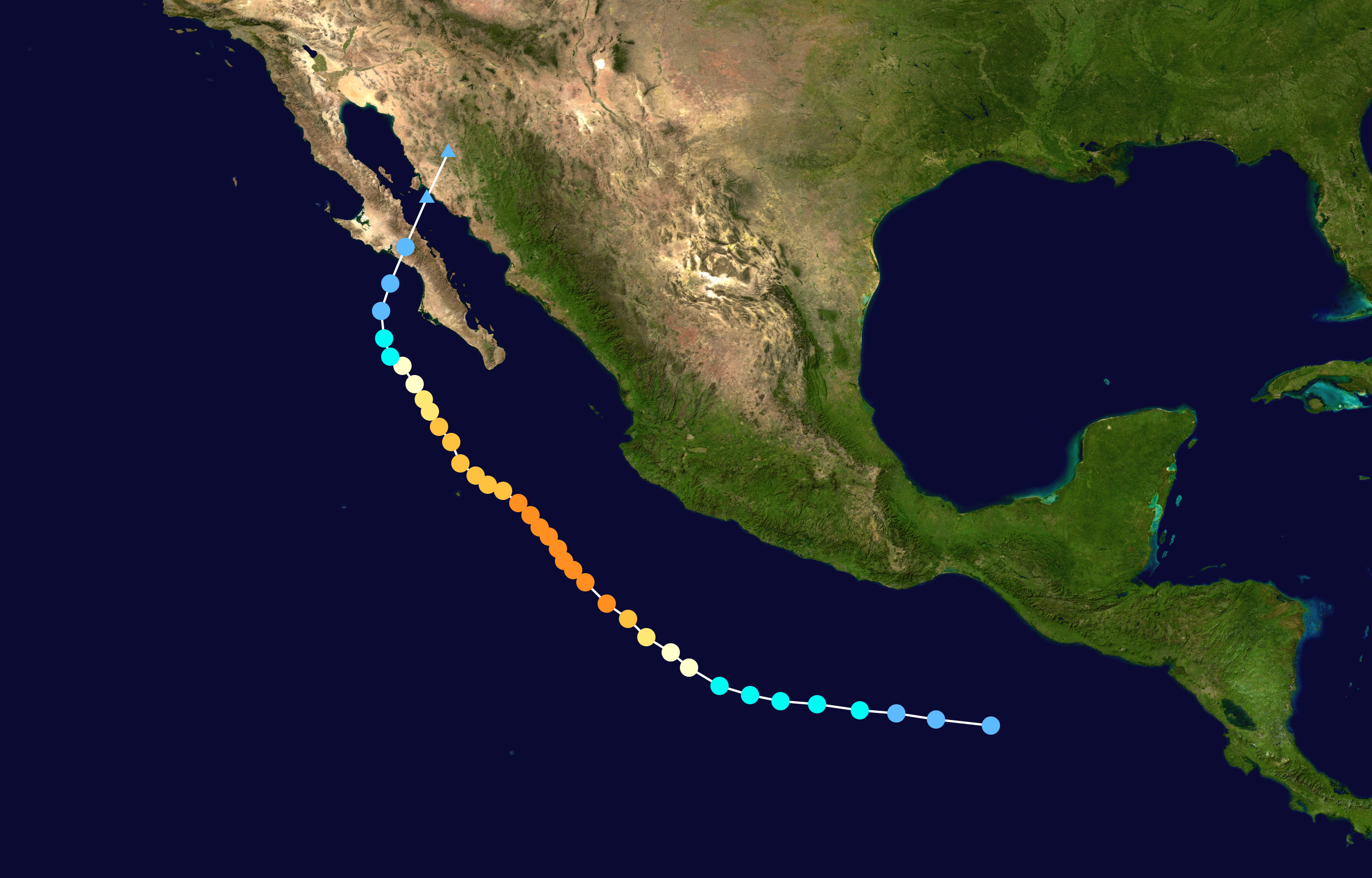 Hurricane Javier (2004) track. Uses the color scheme from the Saffir-Simpson Hurricane Scale.